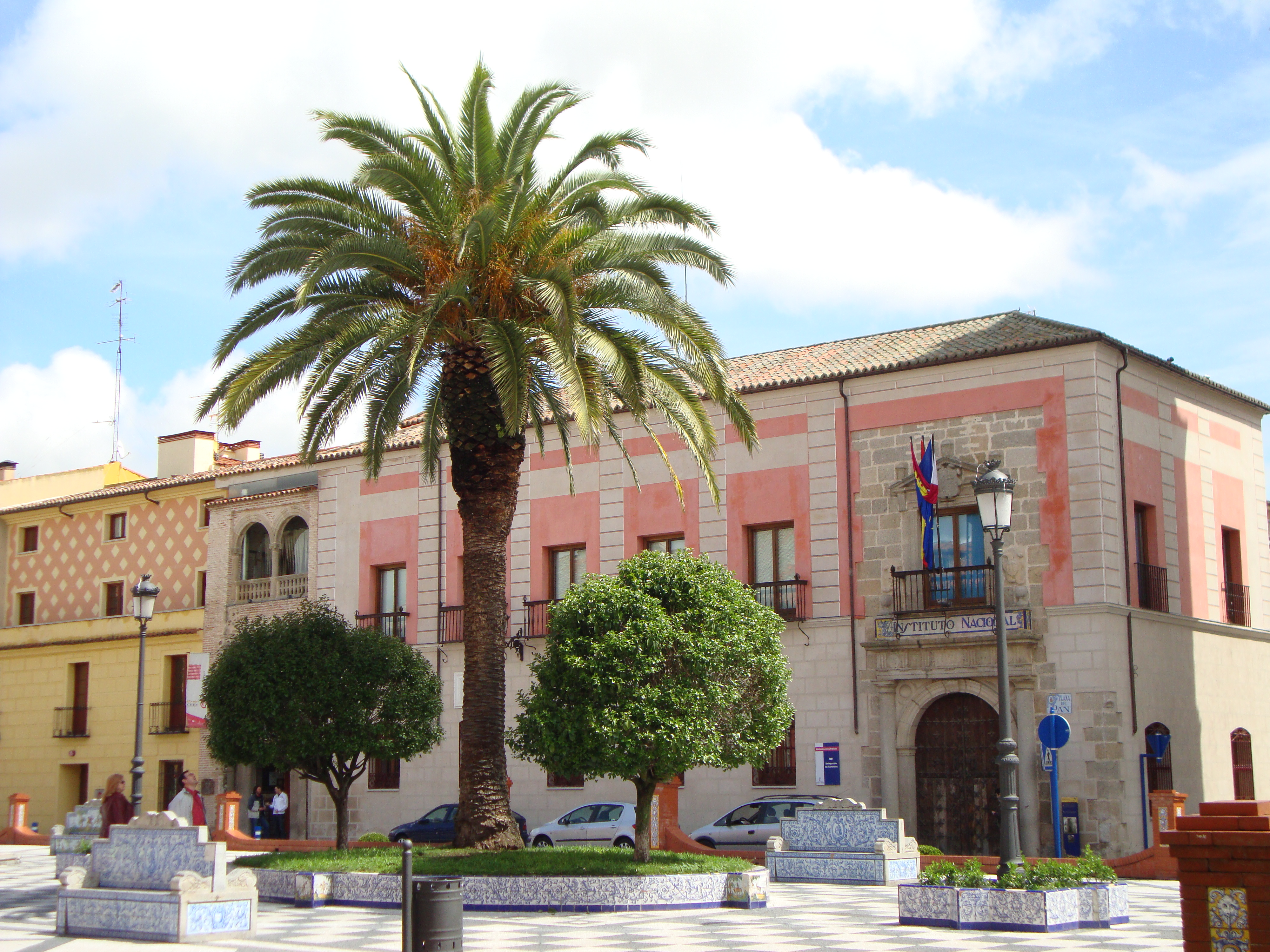 Plaza del Pan, Pan´s Square in Talavera de la Reina (Spain)